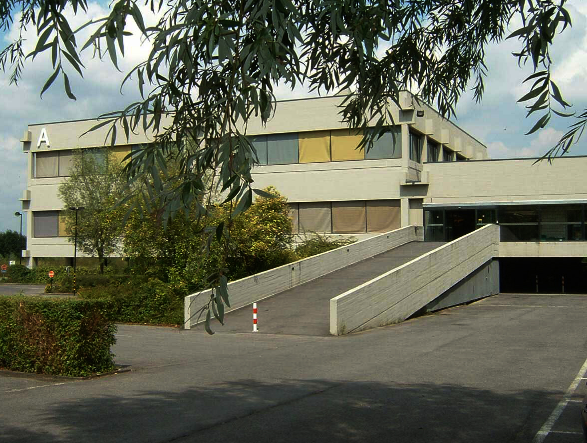 Building A of the Kortrijk University KULaK